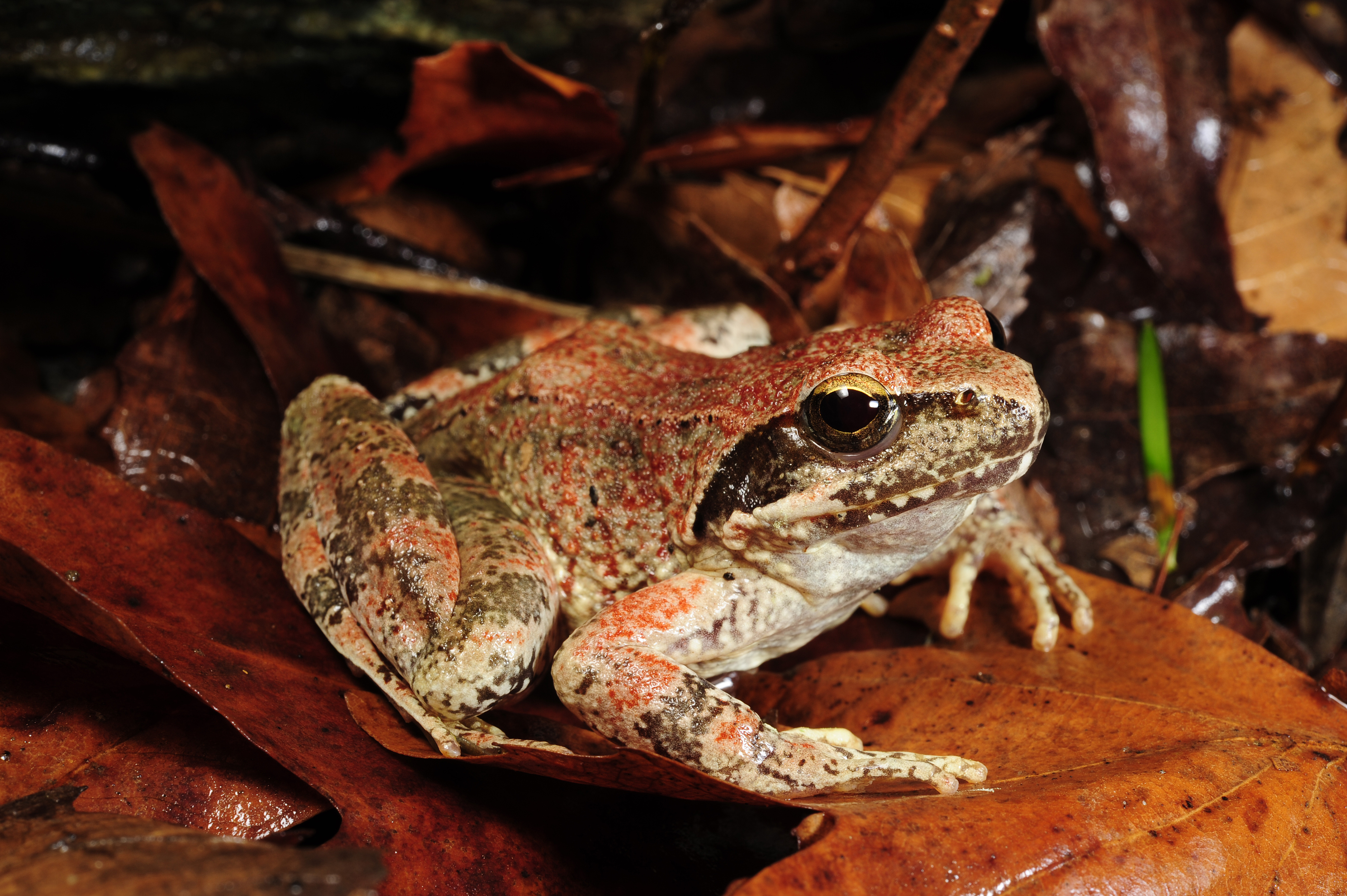 Greek Frog from Olymp